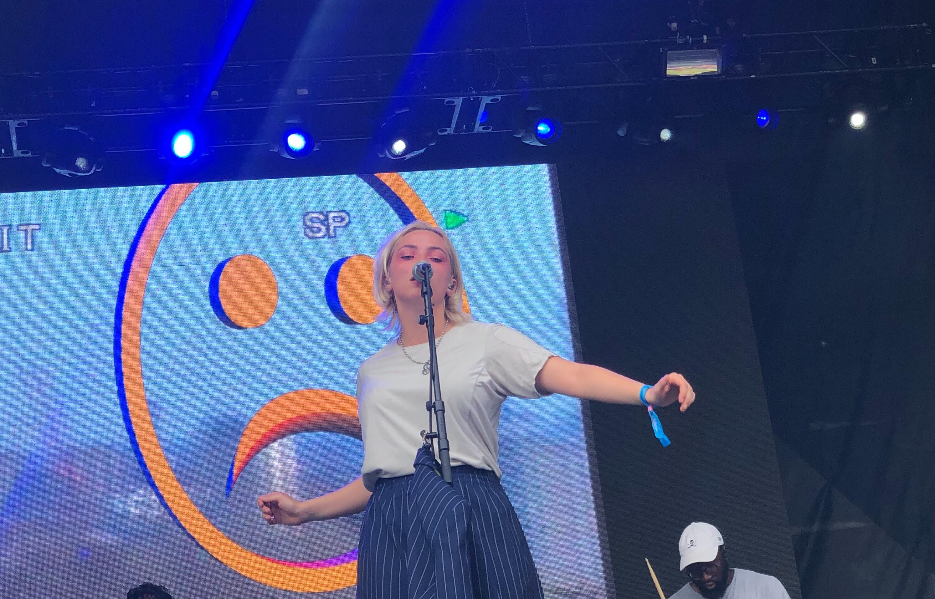 Suzi Wu at Governers Ball 2019